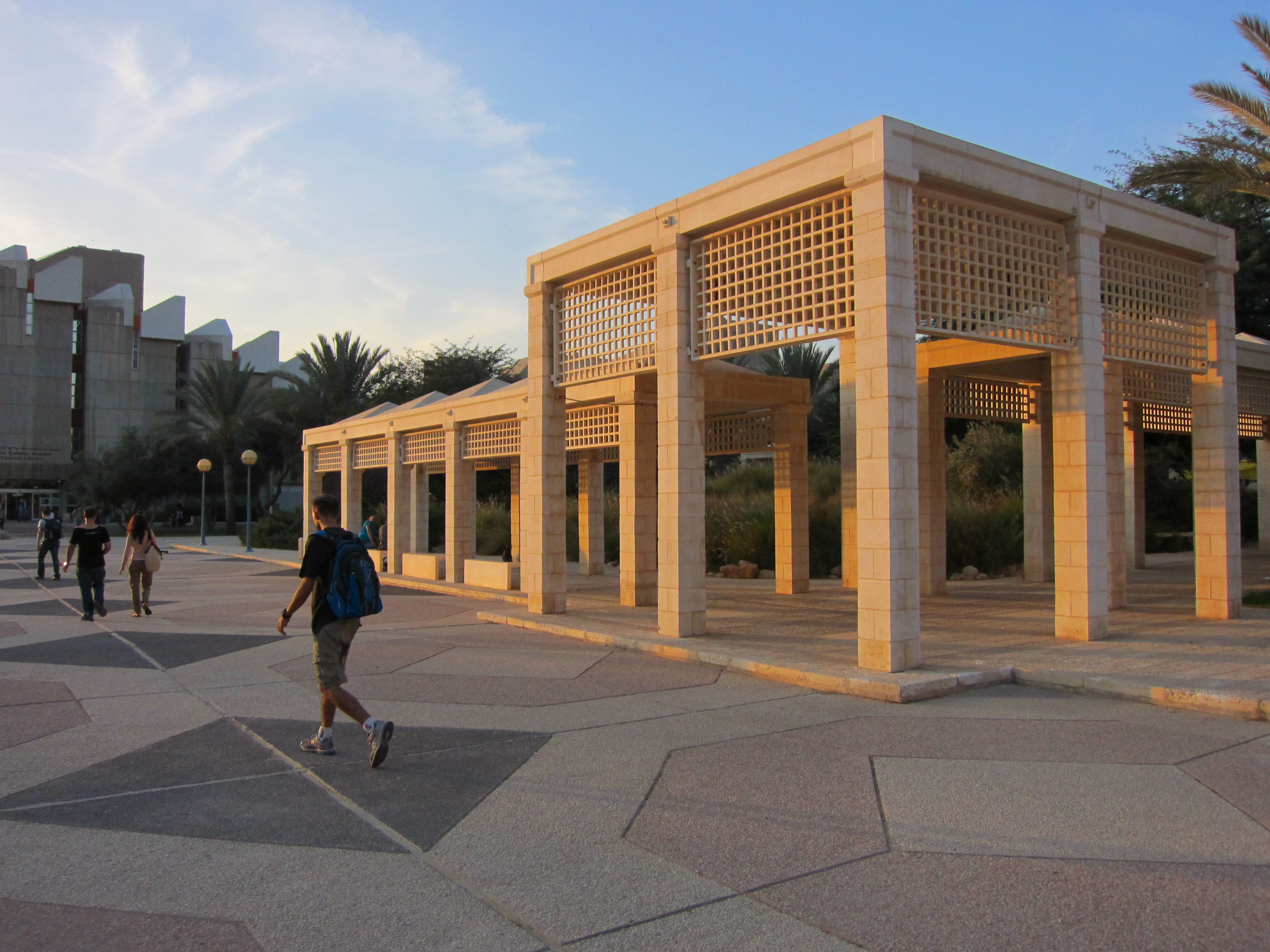 Ben Gurion University of the Negev (Photo: David Saranga)